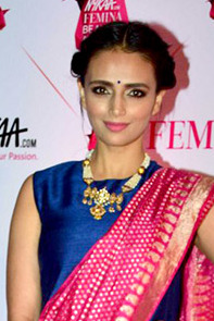 Roshni Chopra graces Femina Beauty Awards 2017, Mar 16.